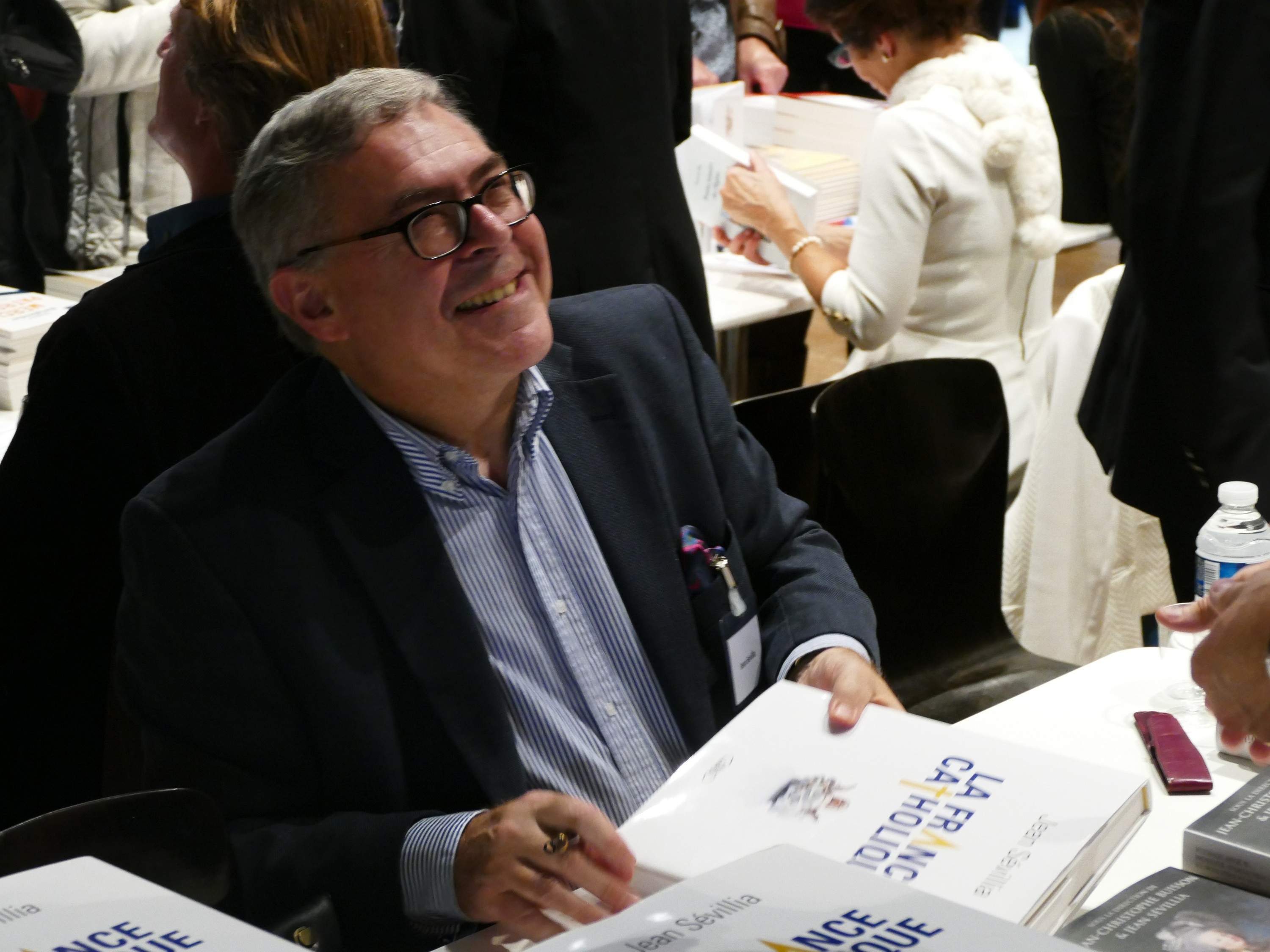 Jean Sévillia at Salon du livre et de la famille in Paris (Île-de-France, France).